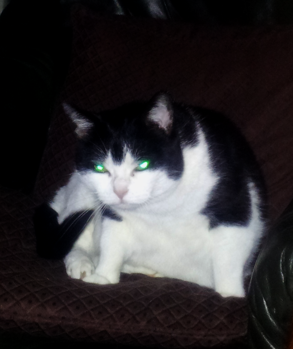 Tapetum lucidum in a domestic cat